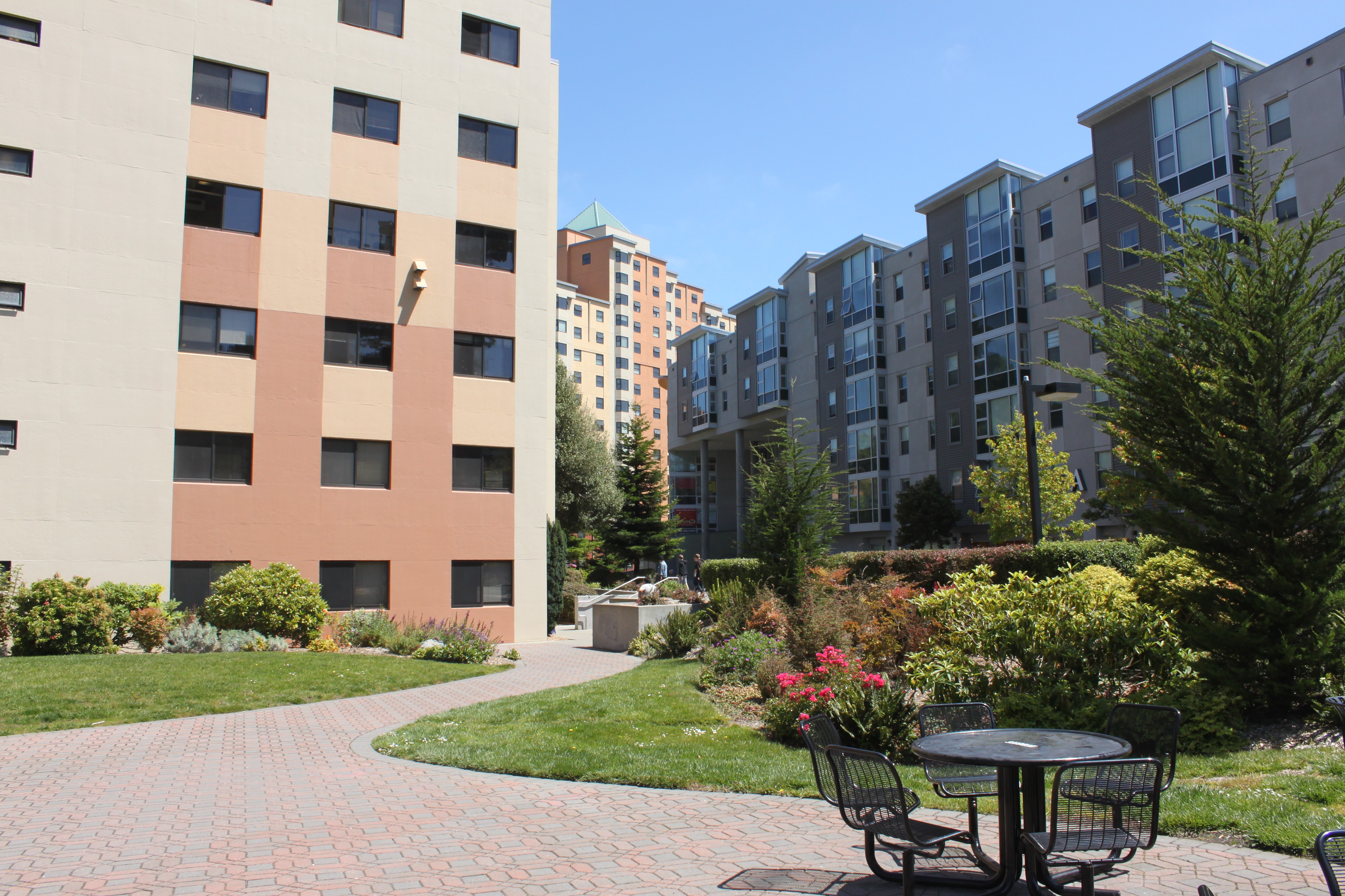 View of SFSU campus dorms and apartments.